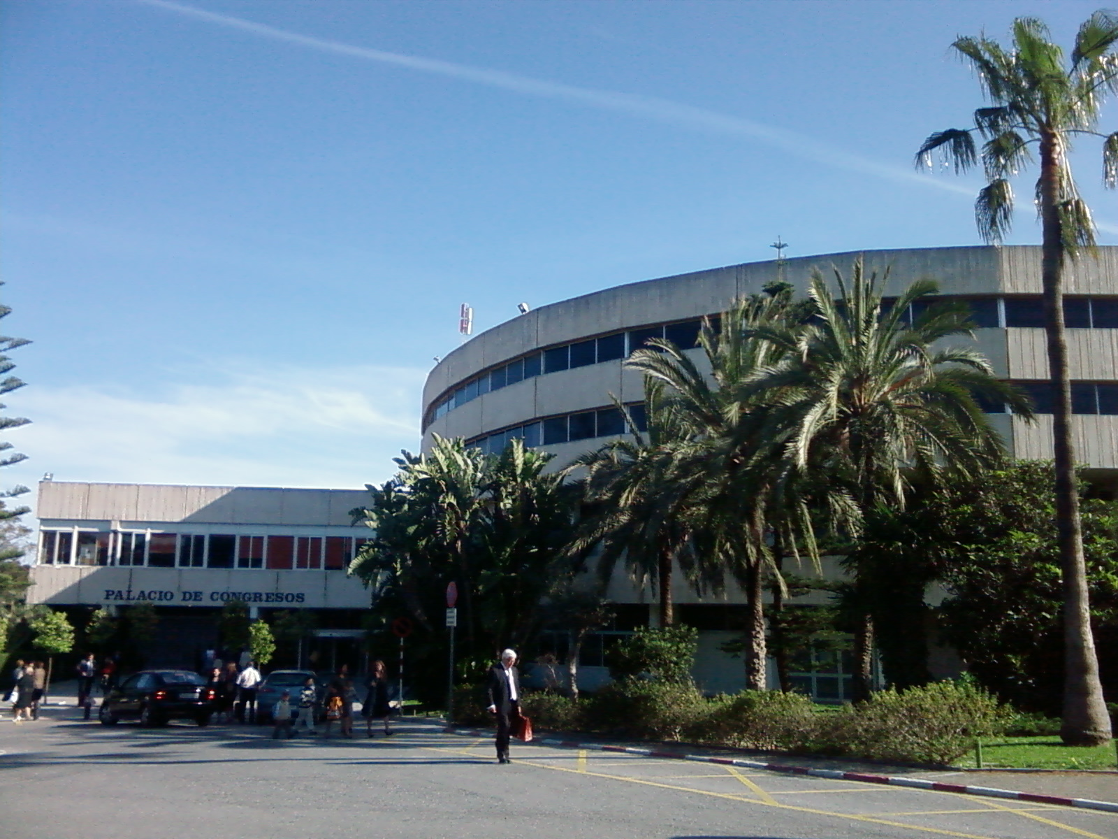 Costa del Sol Convention Centre, Torremolinos, Málaga, Spain